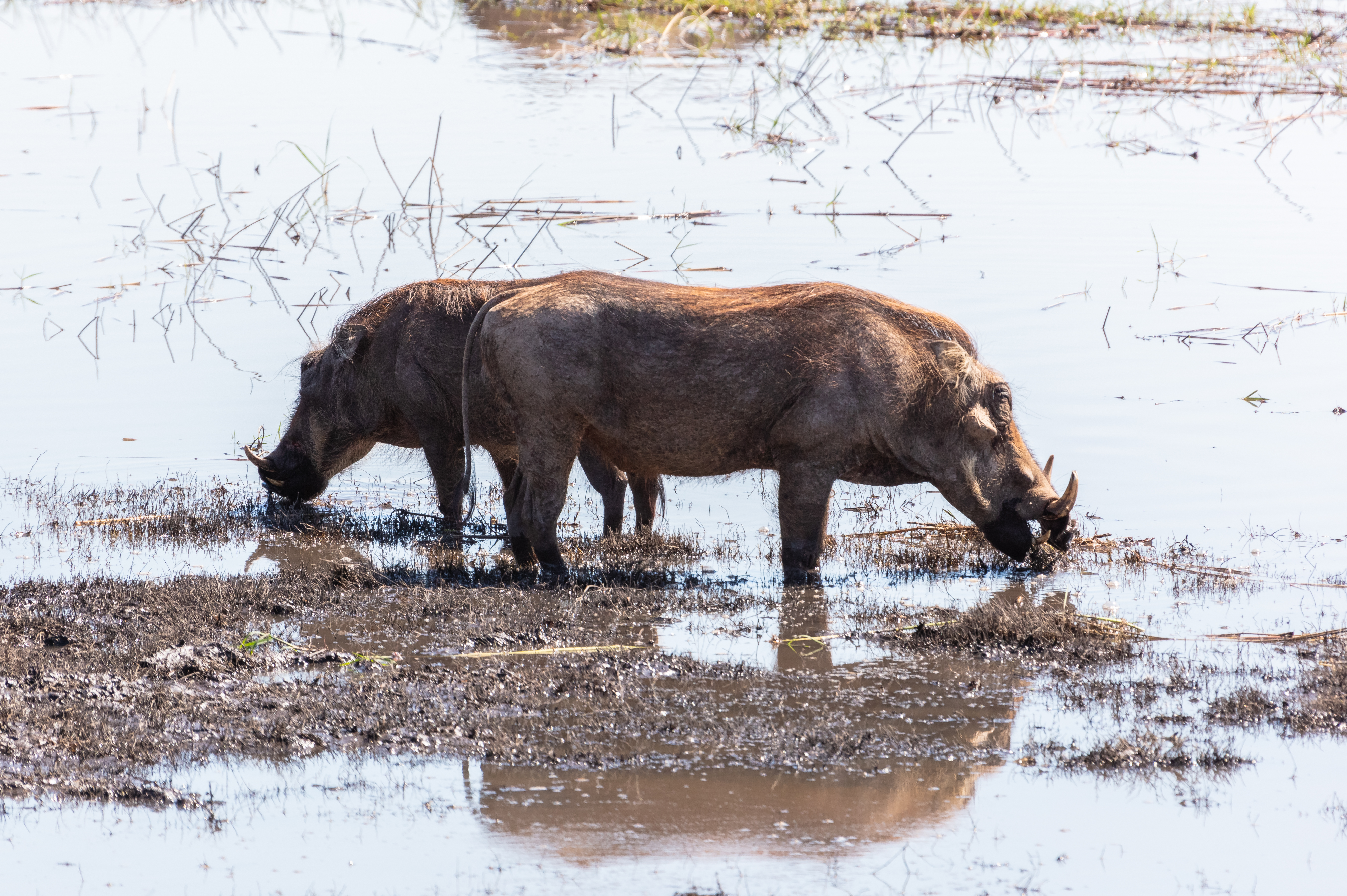 Common warthogs (Phacochoerus africanus), Chobe National Park, Botsuana